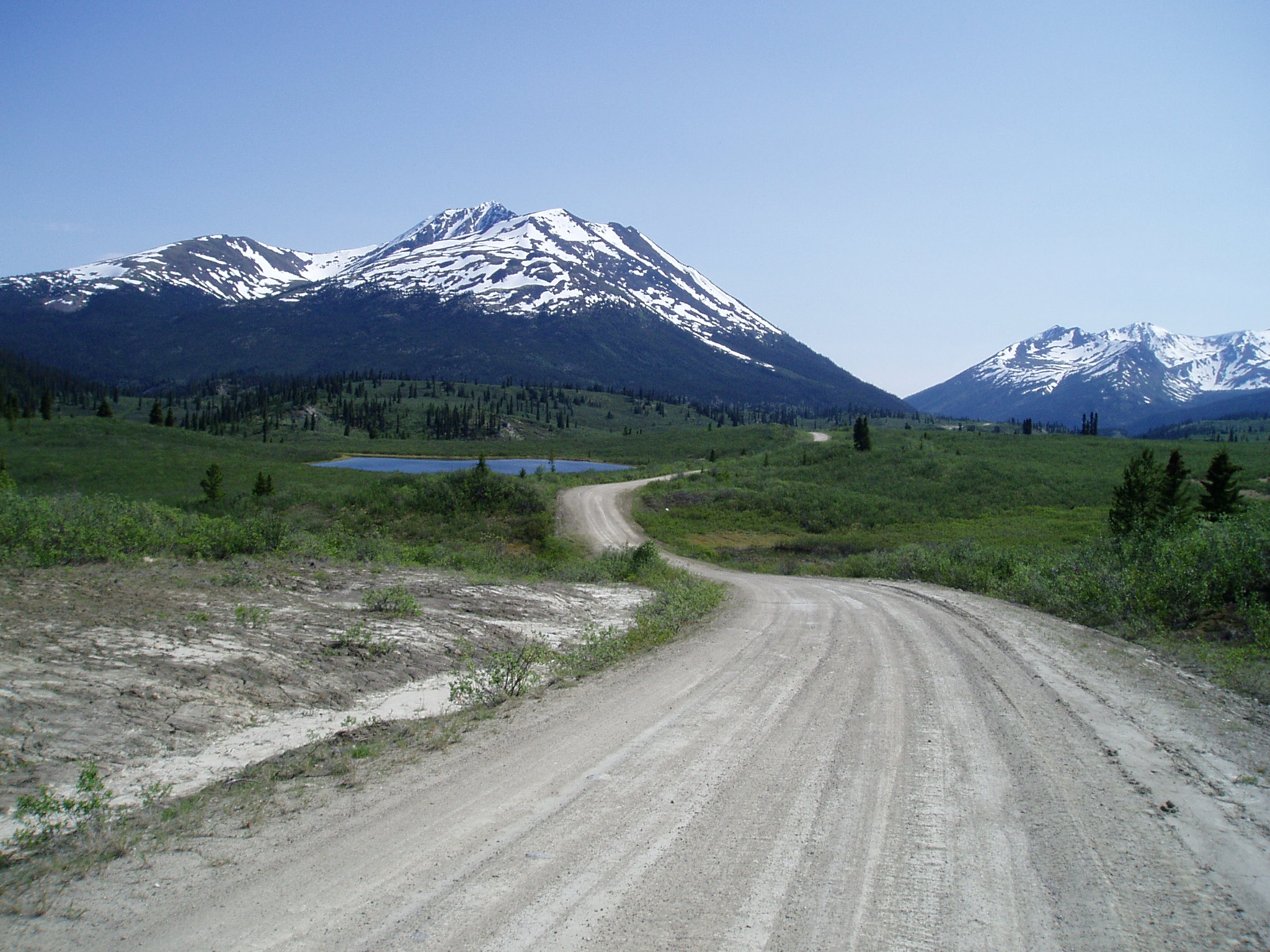 South Canol Road in the Yukon, Canada (near the headwaters of the Rose River).